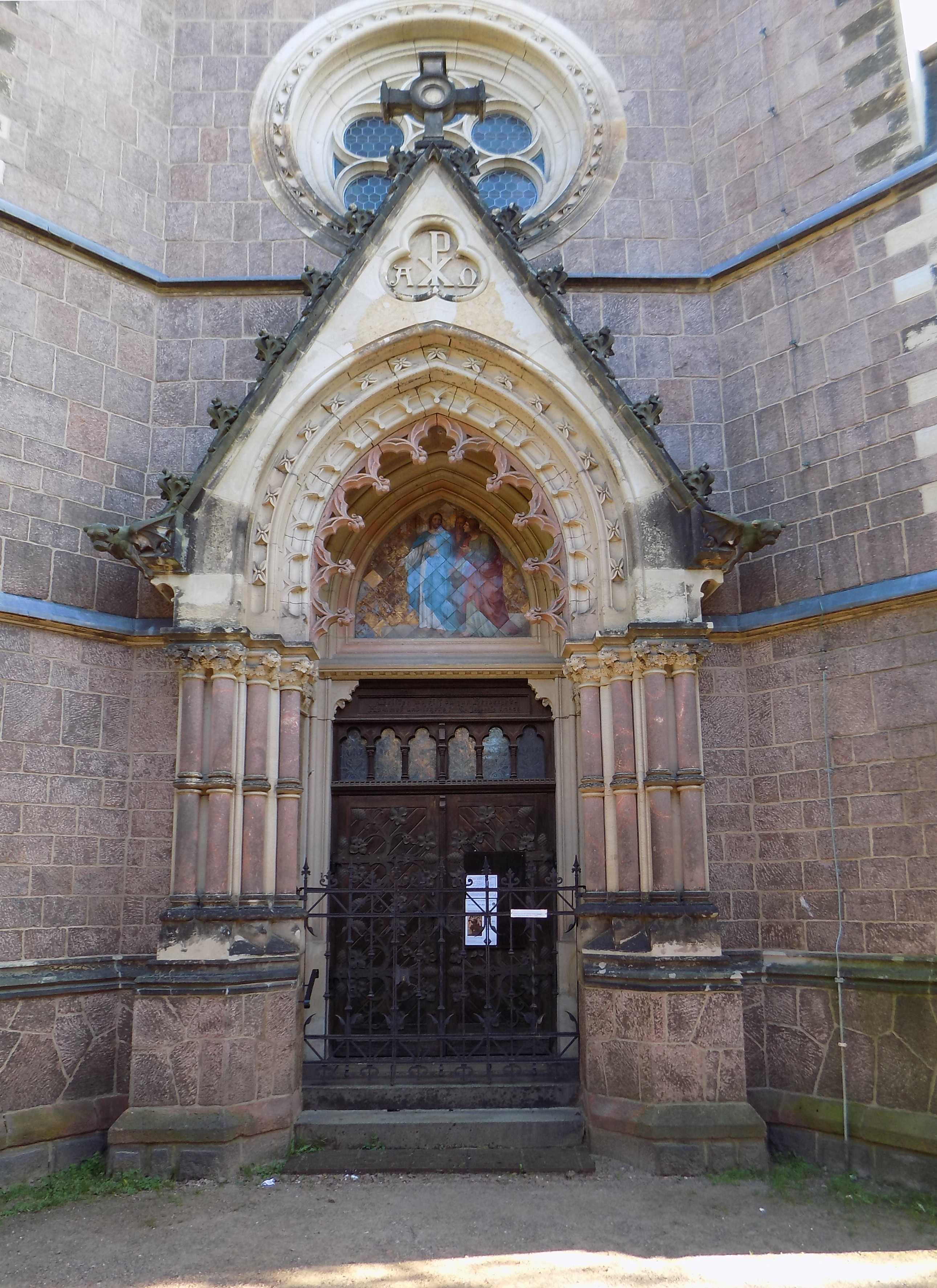 St. John's Church in Cölln (Meissen, Saxony)